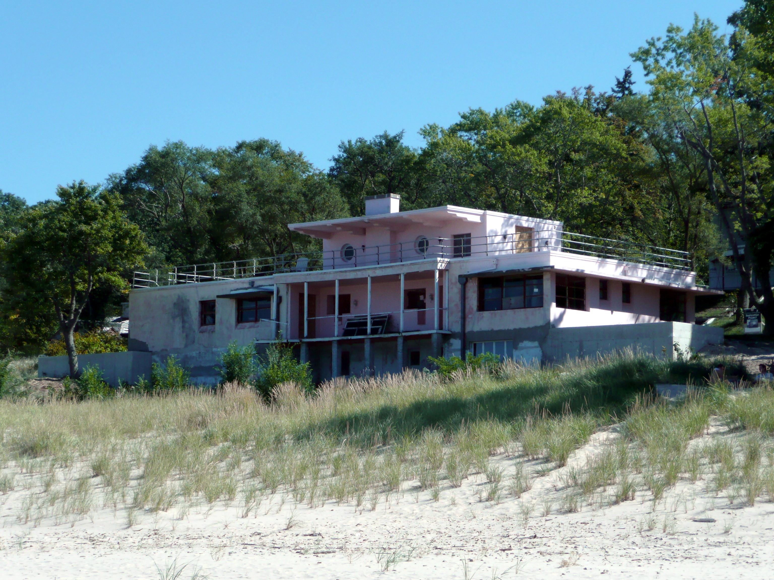 Florida Tropical House in Beverly Shores, Indiana.